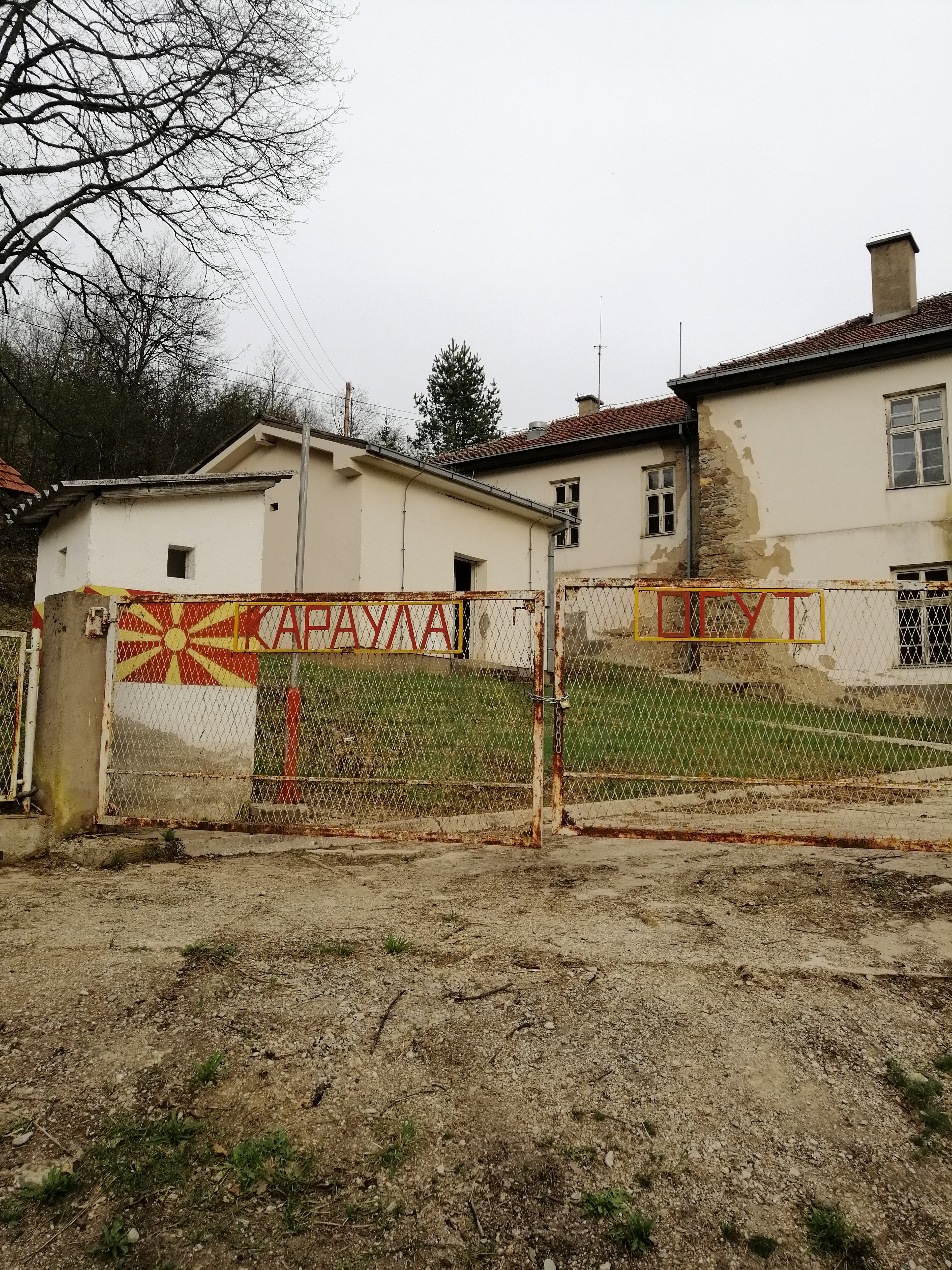 Former barracks in the village Ogut